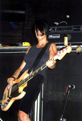 Libling Live 1995